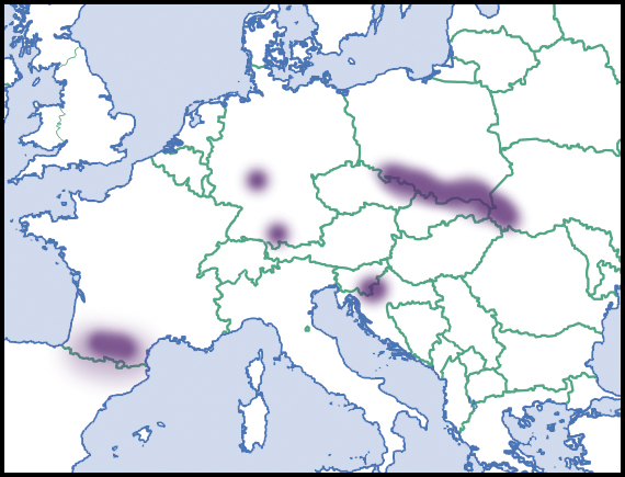 Aegopinella epipedostoma (Fagot, 1879). Distributional range in Europe, scientific state of knowledge of 2012. Source description in English. Light colour indicated rare occurrences or regions where the species could eventually be expected to occur. Dark colour indicated relatively reliable occurrences, as well as regions where the species was expected to occur, and where the species was not known to be extremely rare. Dark colour indications were not necessarily based on published records Species summary in AnimalBase